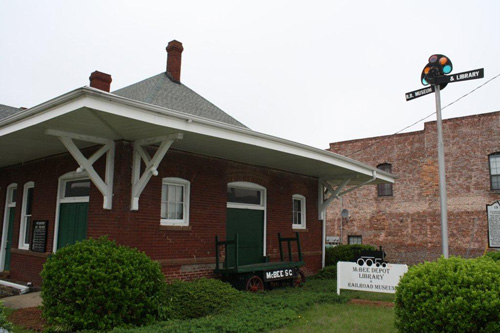 McBee Railroad Depot, located in McBee, South Carolina